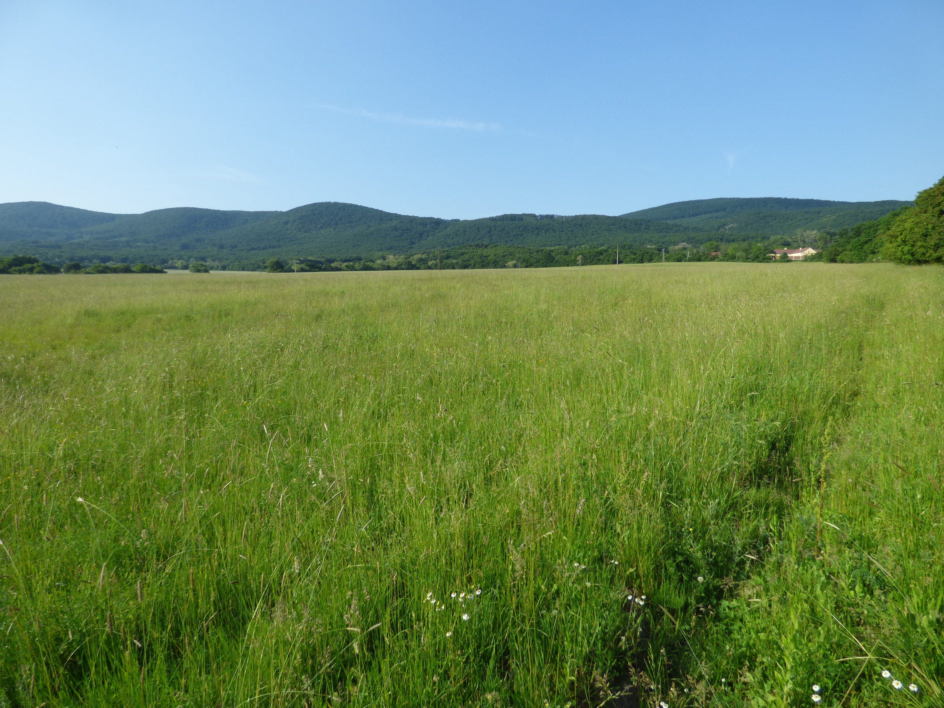 Kovacsina dűlő délkelet felől